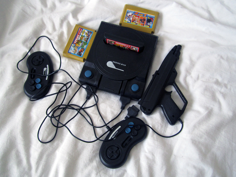 The game console - Terminator 2. It's a NES clone from the 90s.